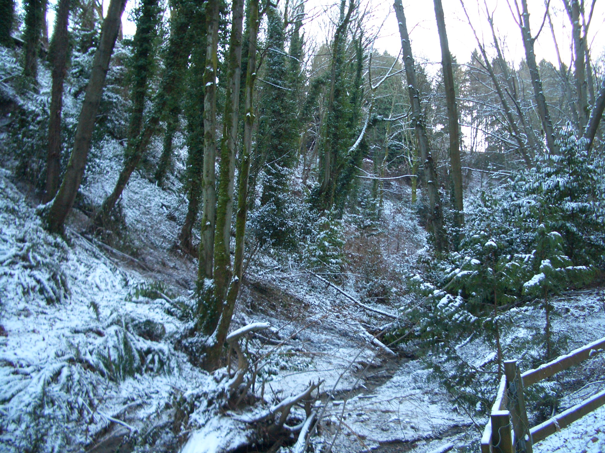 A rare snow day in Seattle's Interlaken Park.